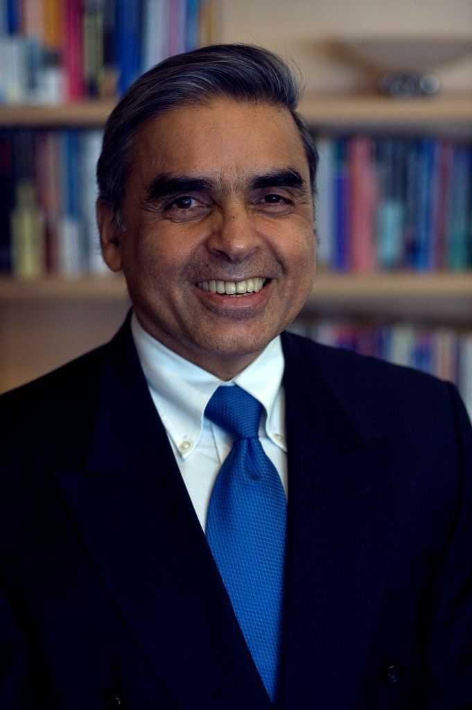 Official photo of Prof Kishore Mahbubani, Dean, Lee Kuan Yew School of Public Policy, National University of Singapore. Taken on 22 February 2008.